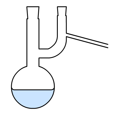 scheme of Claisen's distillation flask made in Macromedia Flash 5